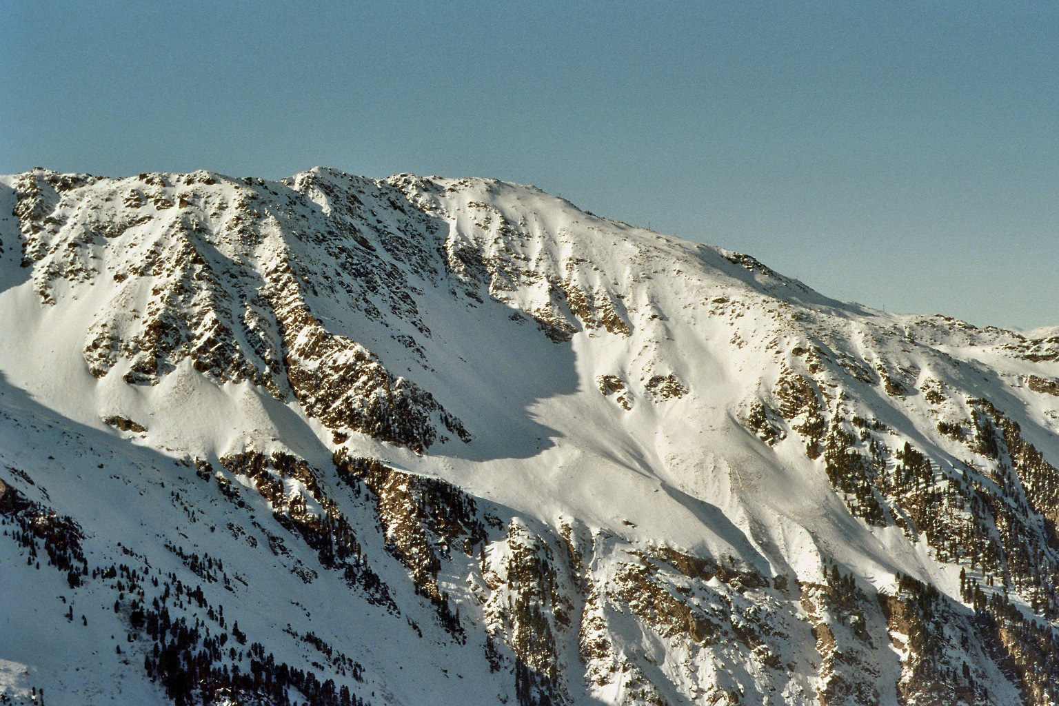 Glungezer from east (Voldertal)